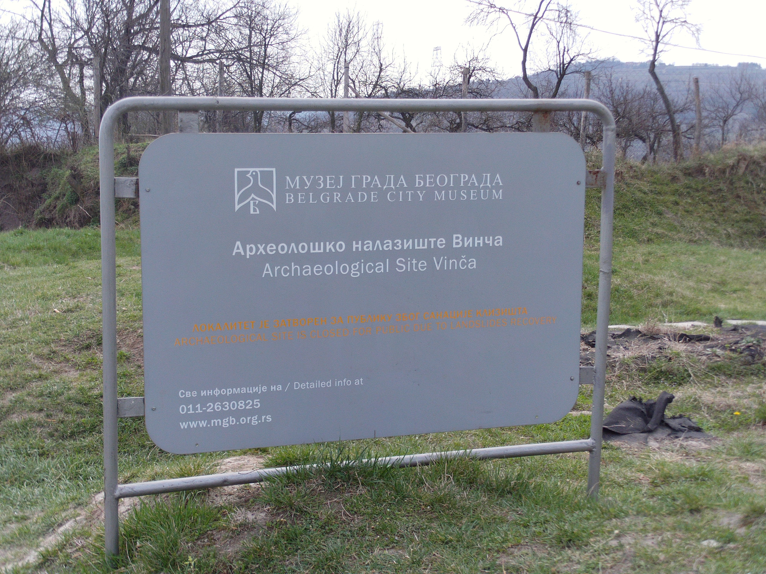 Information signboard on closed Vinča-Belo Brdo archeological site, 2011